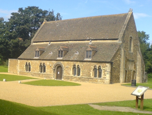 Photo by Njjh201.